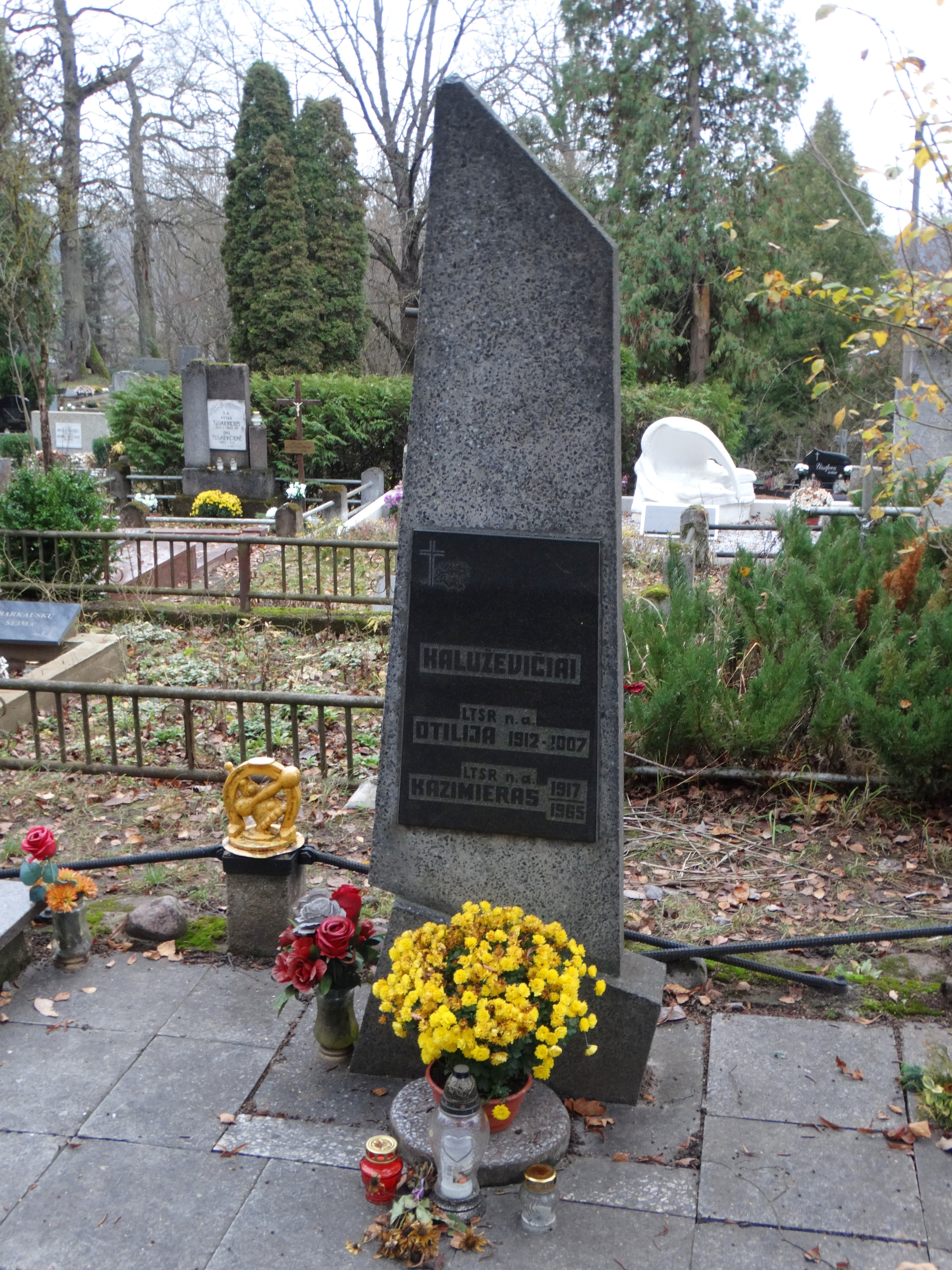 Tomb of Kaluževičius Kazys and Otilija, circus artists, Eiguliai cemetery, Lithuania